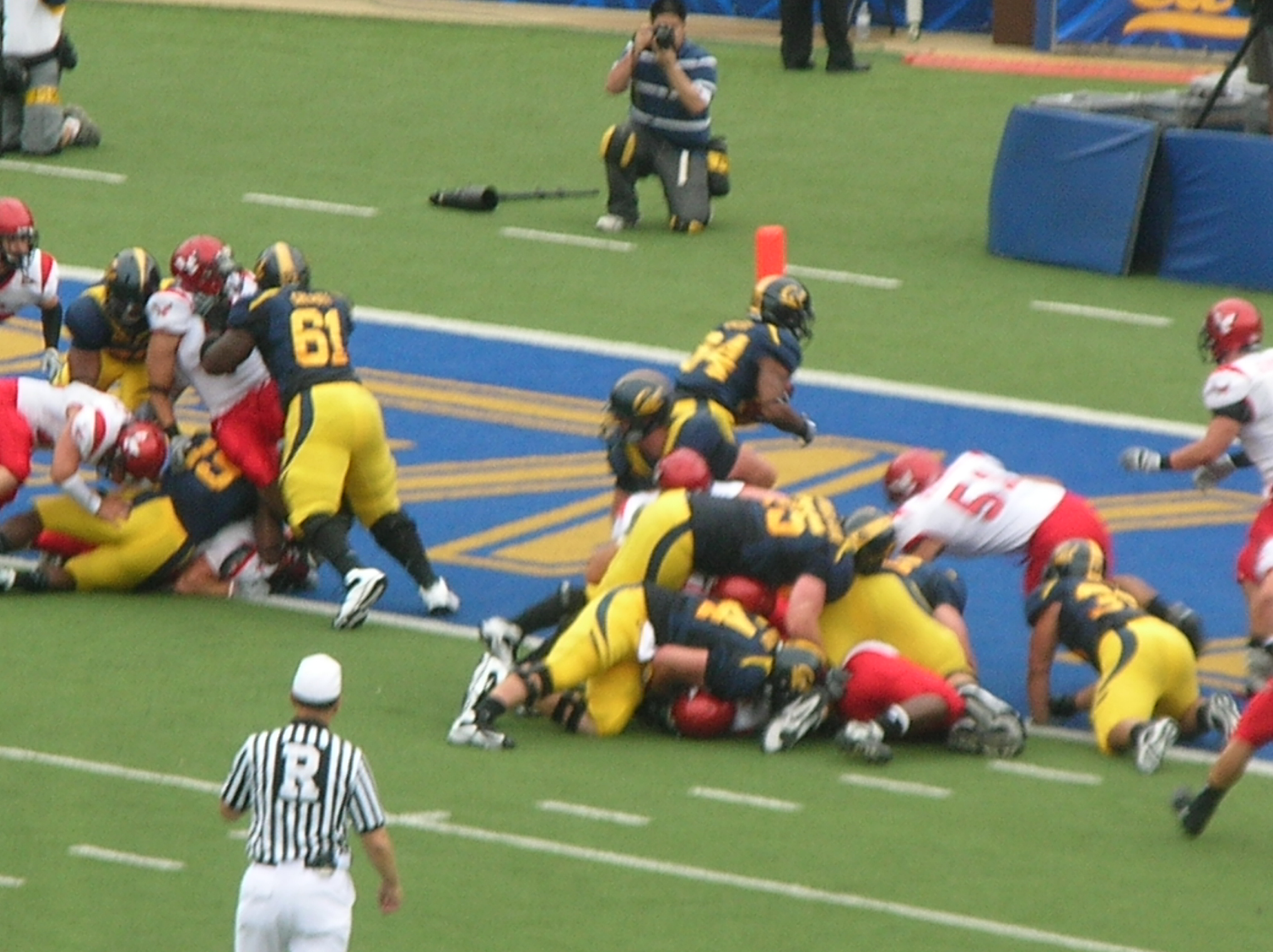 Cal running back Shane Vereen (#34) scores one of his three rushing touchdowns during the second game of the 2009 season at home against the Eastern Washington Eagles. The Golden Bears won 59-7.